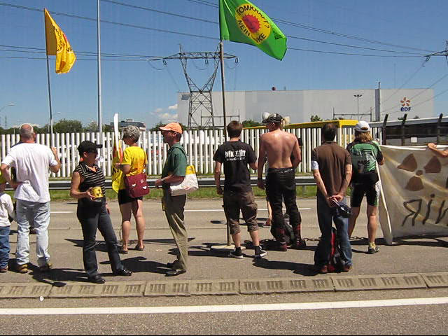 picture of the "human chain", protest against Fessenheim nuclear power plant (France, at the border to Germany, about 25km southwest from Freiburg (Breisgau); taken in front of the plant.